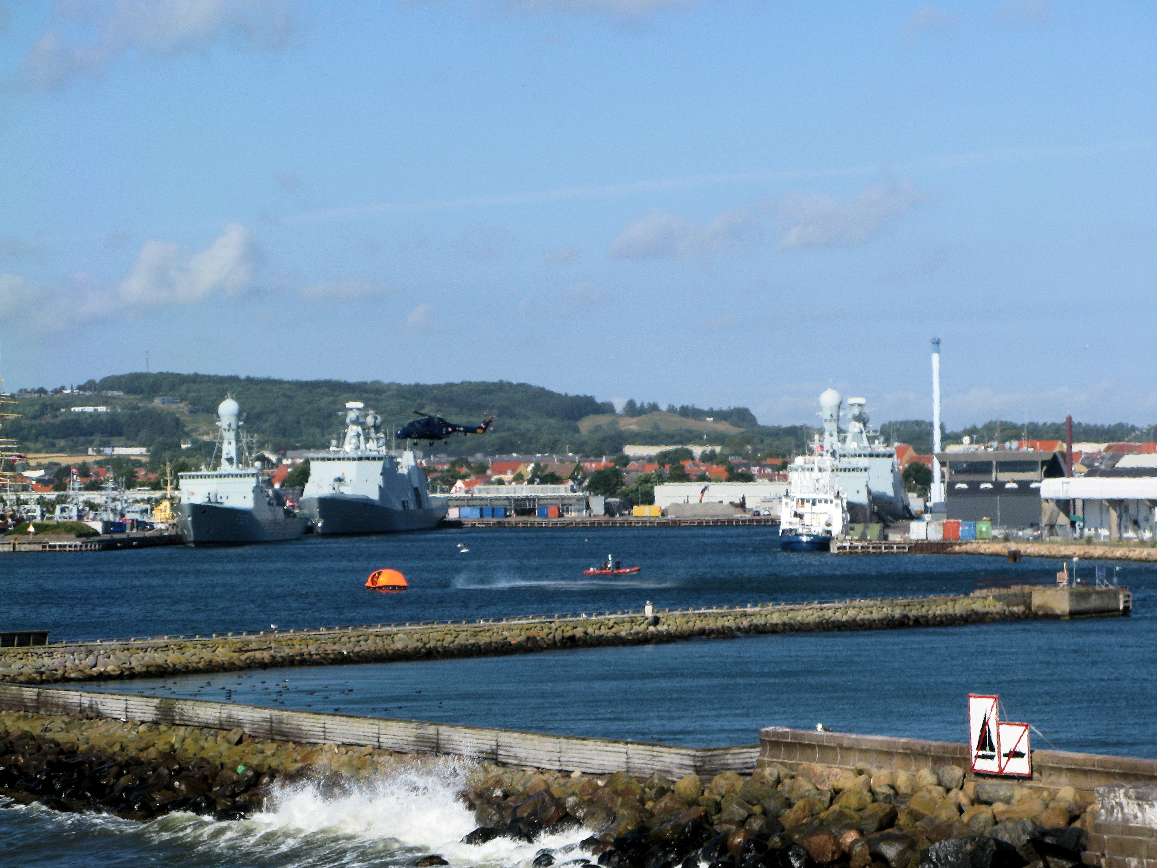 Naval Harbour of Frederikshavn, Northern Denmark